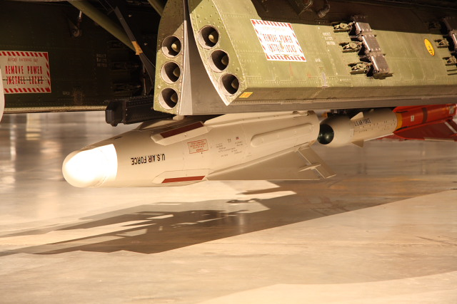 An AIM-26A Falcon nuclear air-to-air missile. It is hunged under F-102 Delta Dagger's weapon bay. This picture was taken at National Museum of the United States Air Force - Dayton, Ohio.